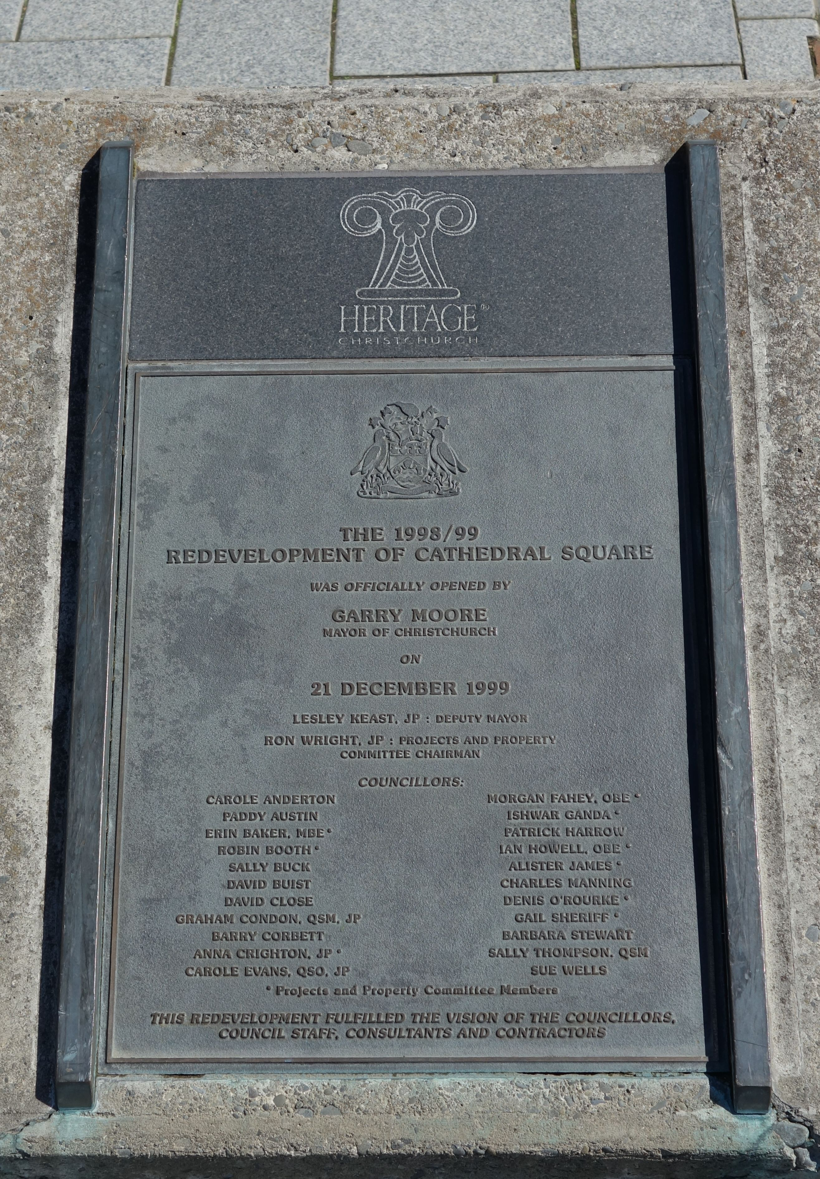 Christchurch in September 2015